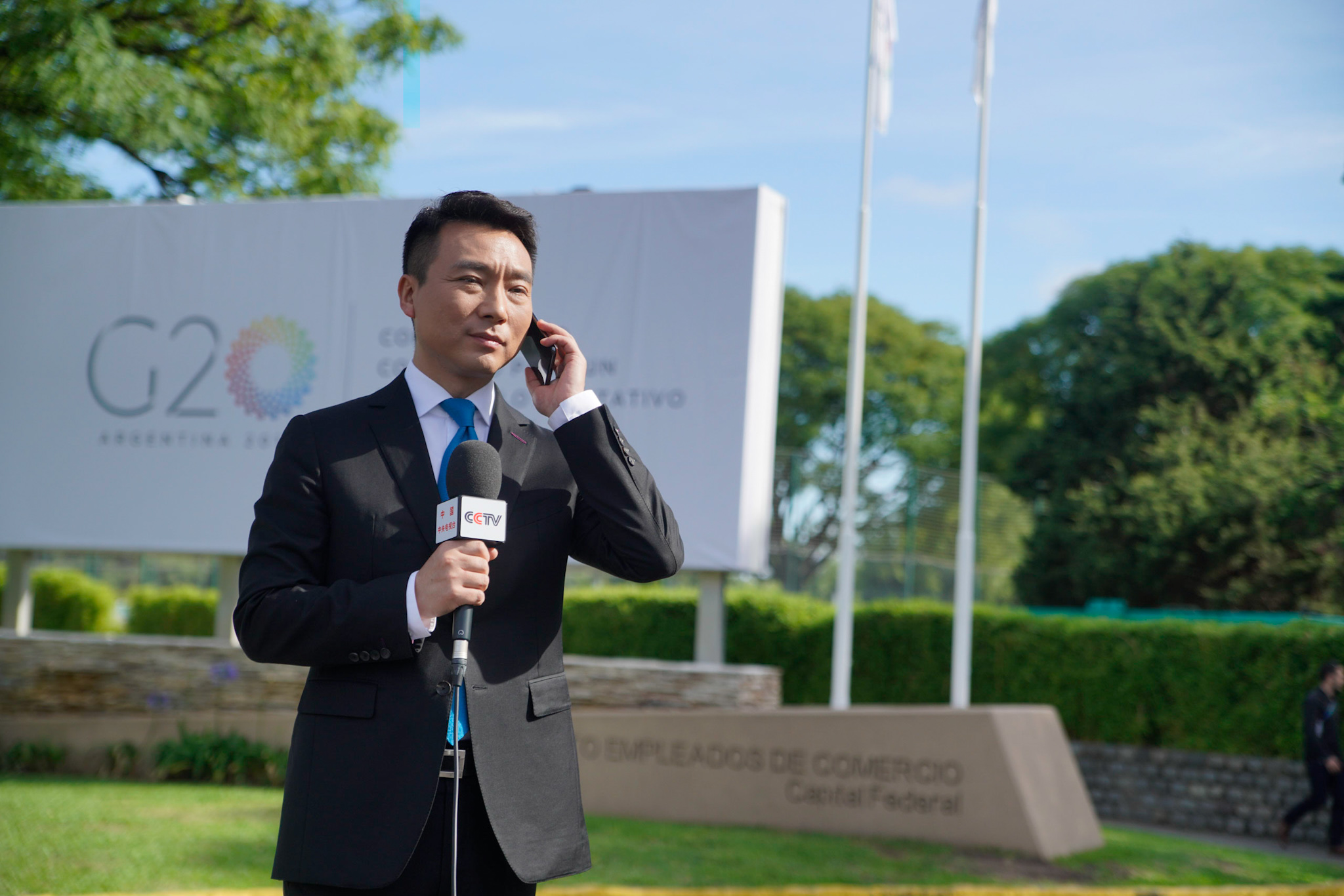 Candid photos